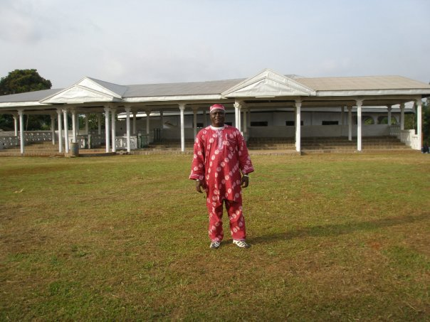 The Batibo Royal Palace